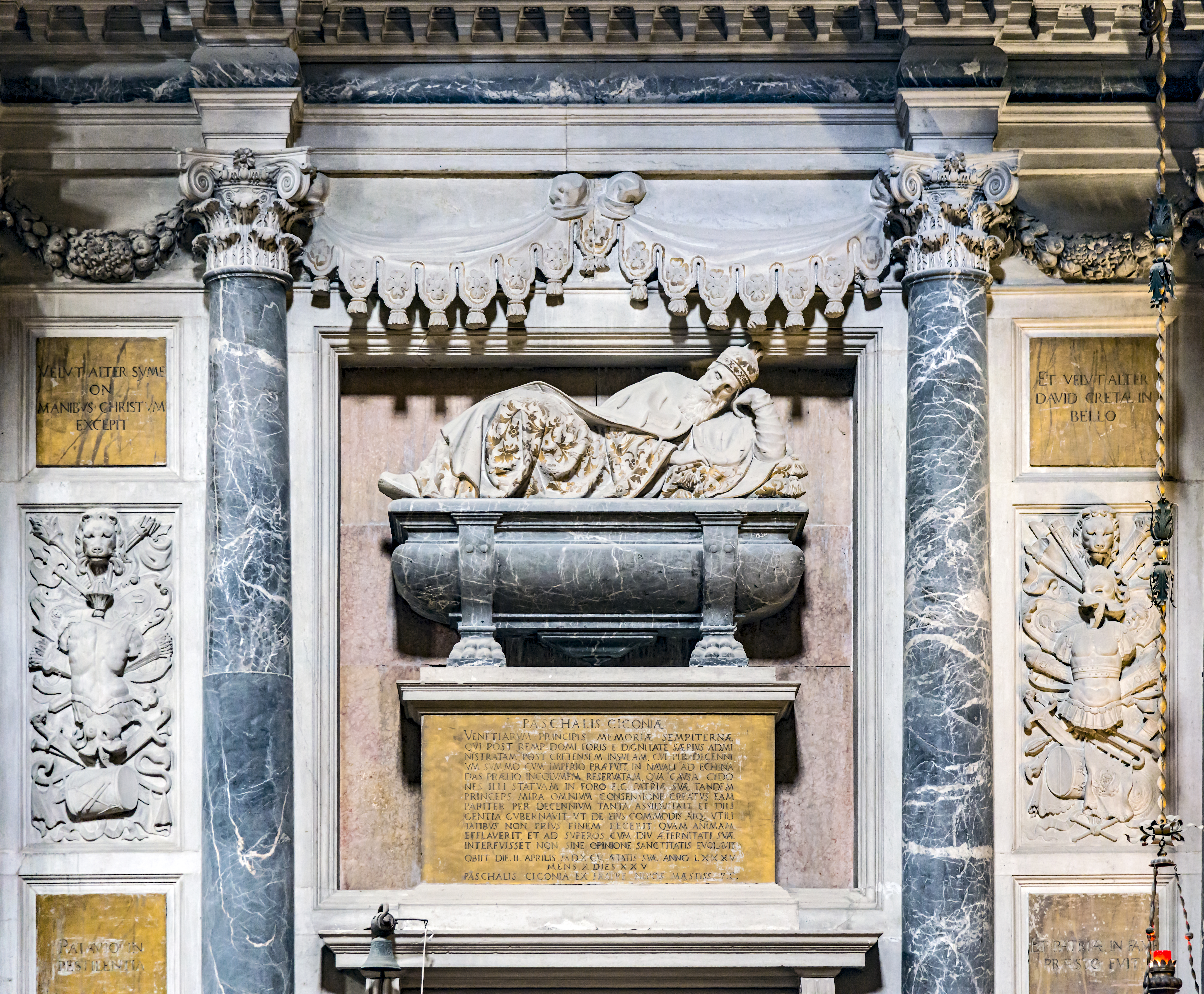 I Gesuiti, Venice Left transept - Above the door of the sacristy, the monument to the Doge Pasquale Cicogna. Girolamo Campagna's work of the early 1600s.